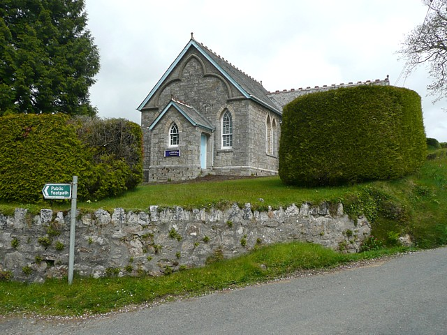 Methodist Church, Cardinham At a cross-roads, opposite the school.